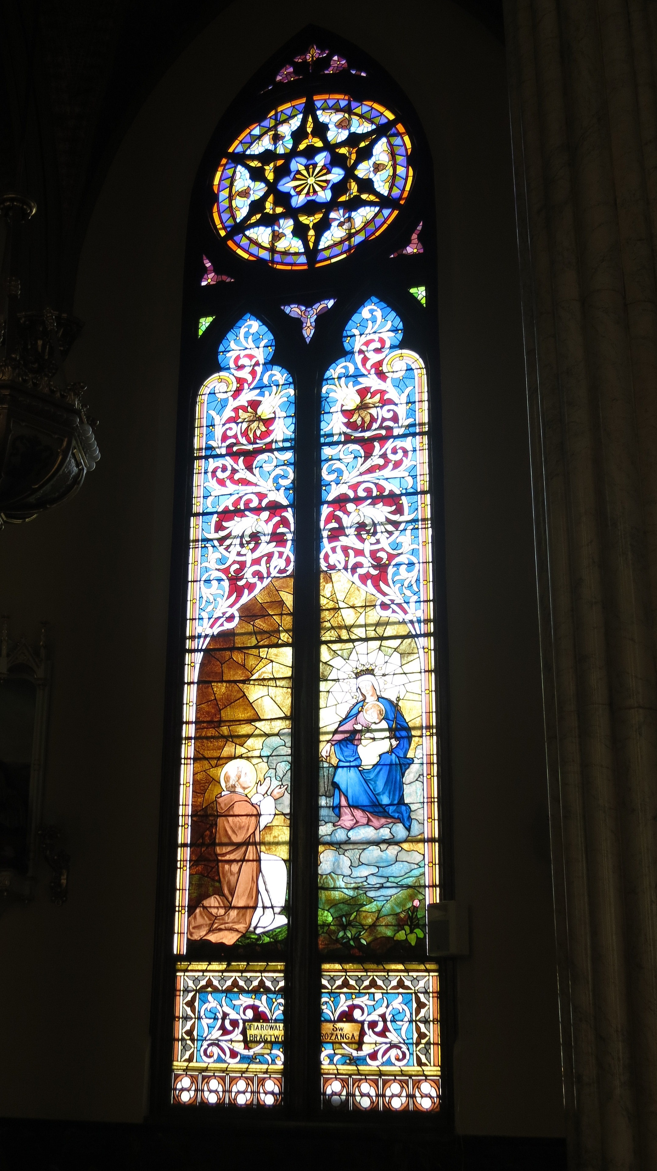 Sweetest Heart of Mary Catholic Church (Detroit, MI) - nave, Saint Dominic